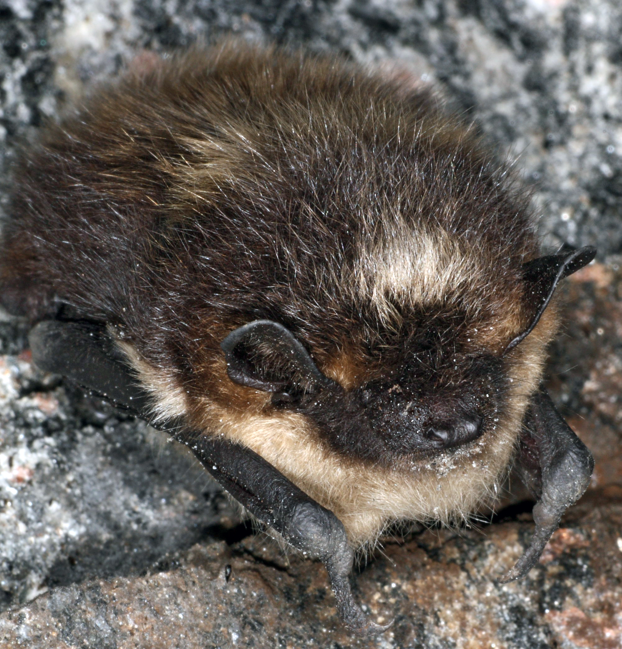 Northern Bat (Eptesicus nilssonii) winter hibernating in Modum, Norway